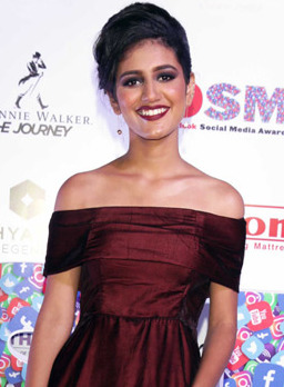 Priya Prakash Varrier at PCJ Outlook Social Media Awards 2018